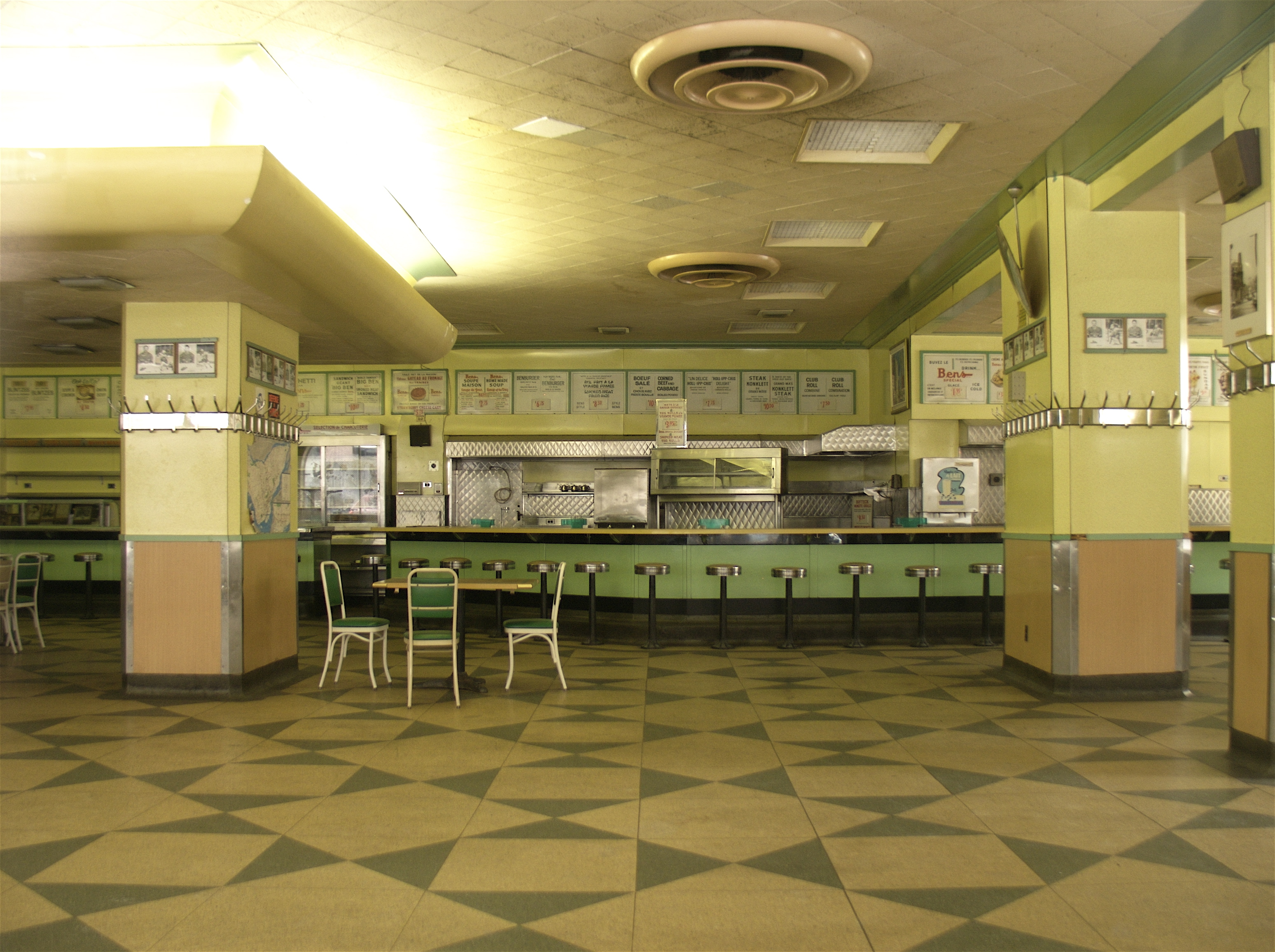 BENS, a classic Streamlined Moderne restaurant in Montreal, Quebec, Canada.